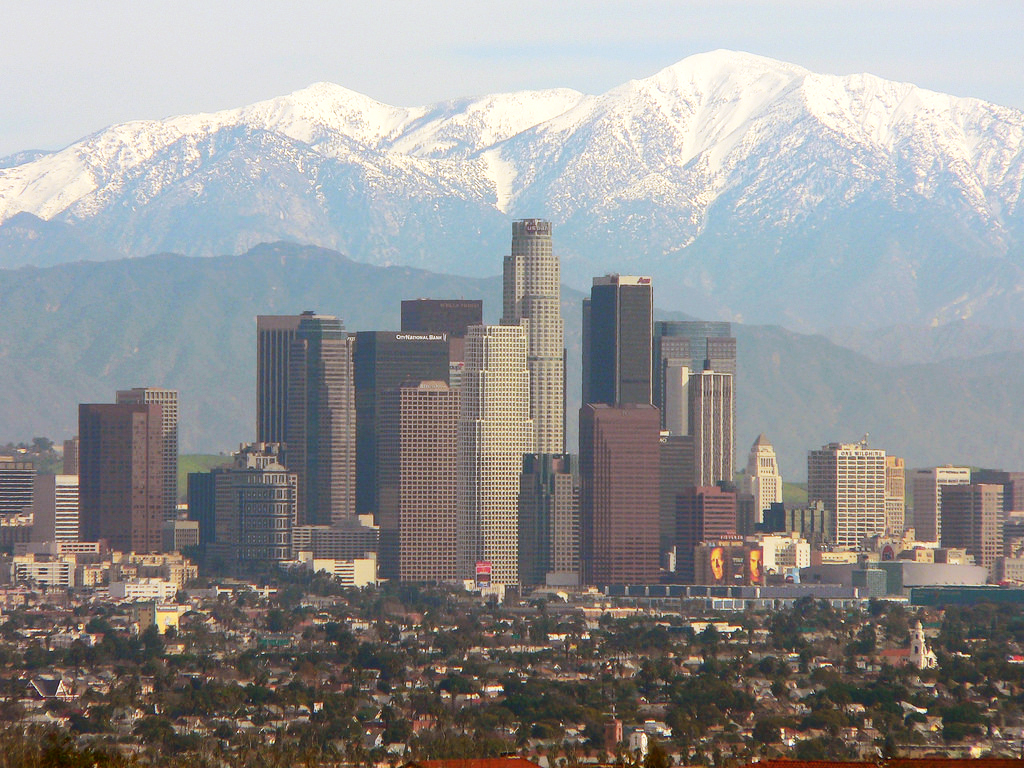 Los Angeles, CA in foreground with San Gabriel Mountains in Los Angeles County, CA in background. USDA USFS photo